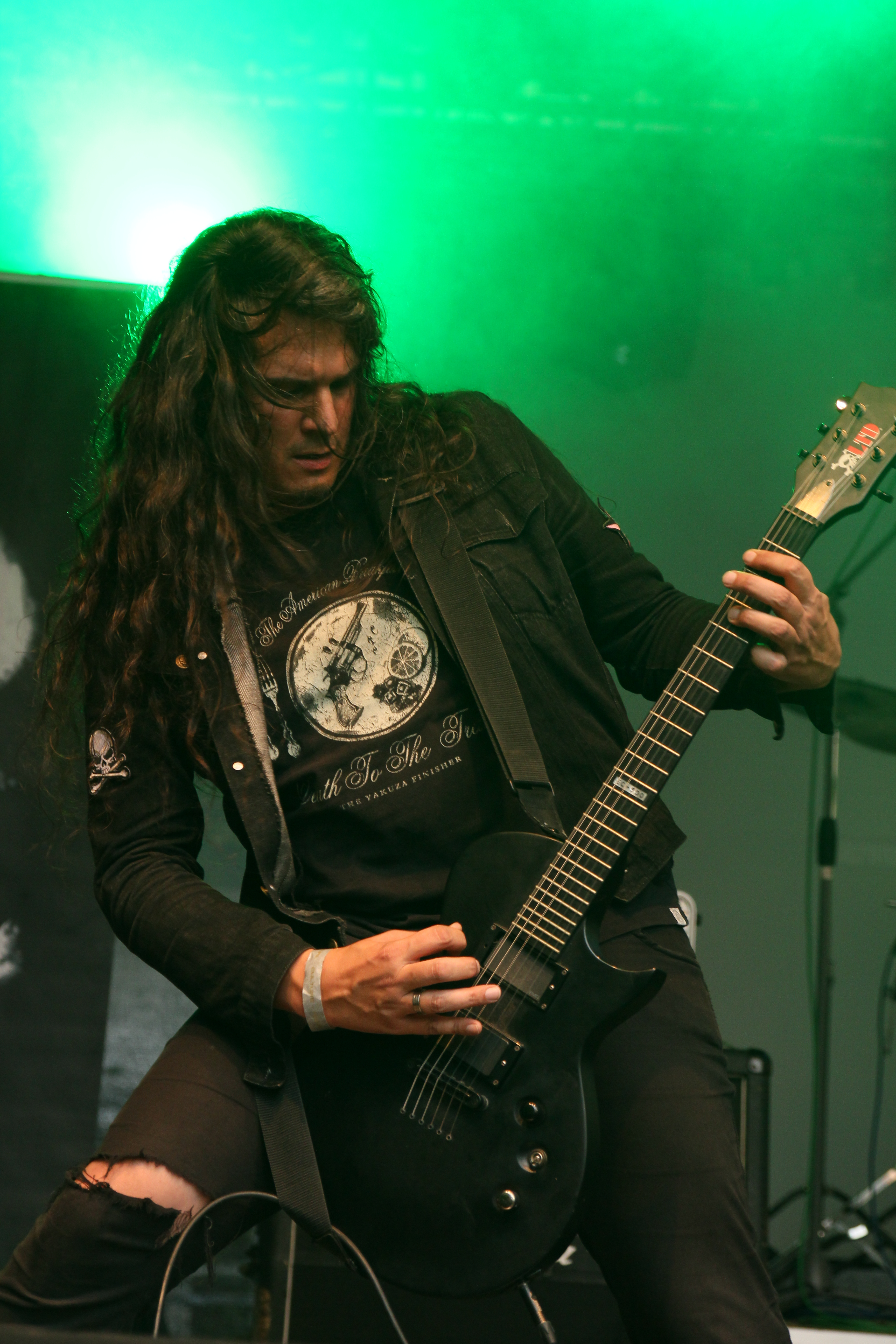 The German dark rock band Lacrimas Profundere at the Nocturnal Culture Night 9 2014 in Deutzen/Germany